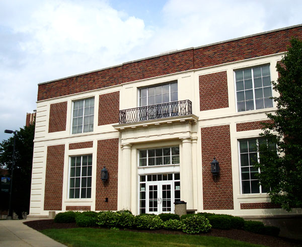 Boone Hall at Eastern Michigan University in Ypsilanti Michigan